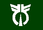 Flag of Kitagawa Kochi